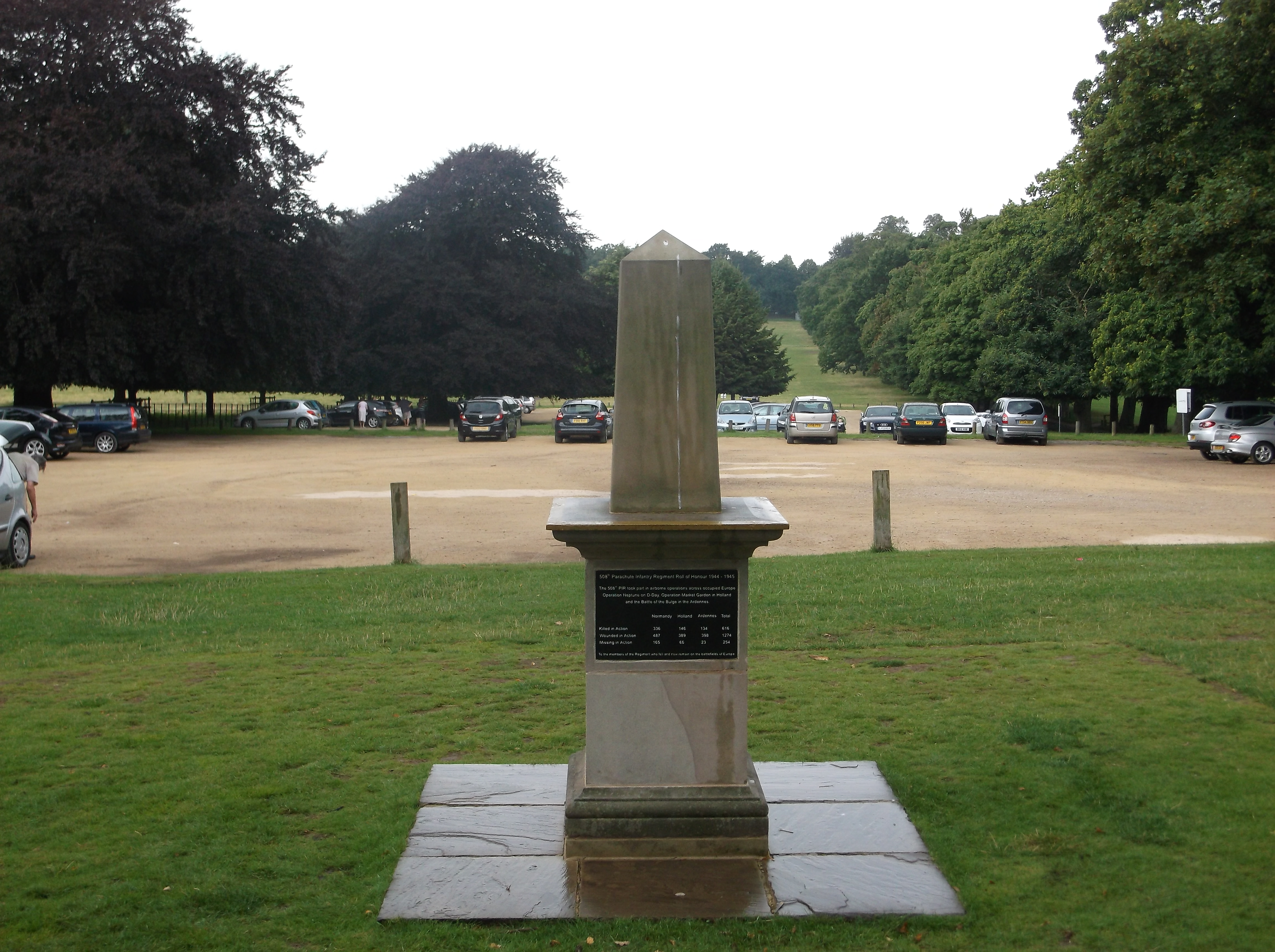 War memorial in Wollaton Park, Nottingham, to the American 508th Parachute Infantry Regiment who were based in the park during the Second World War. According to the plaque, 616 members of the regiment were killed in action on operations in occupied Europe, 1274 wounded in action, and a further 254 were declared missing in action.